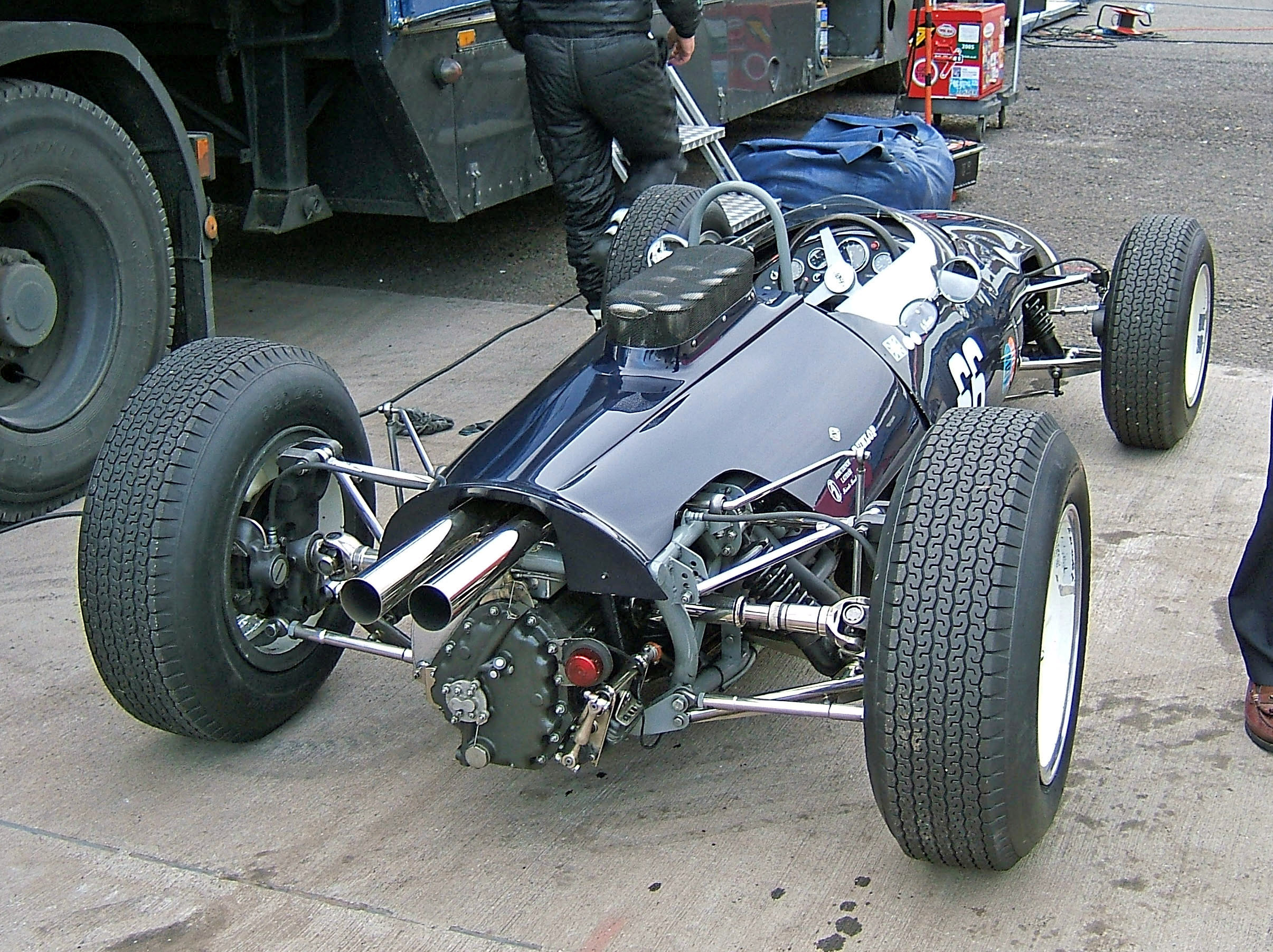 A Cooper T66 cools down in the paddock after a race, during the VSCC SeeRed race meeting, Donington Park, September 2007.